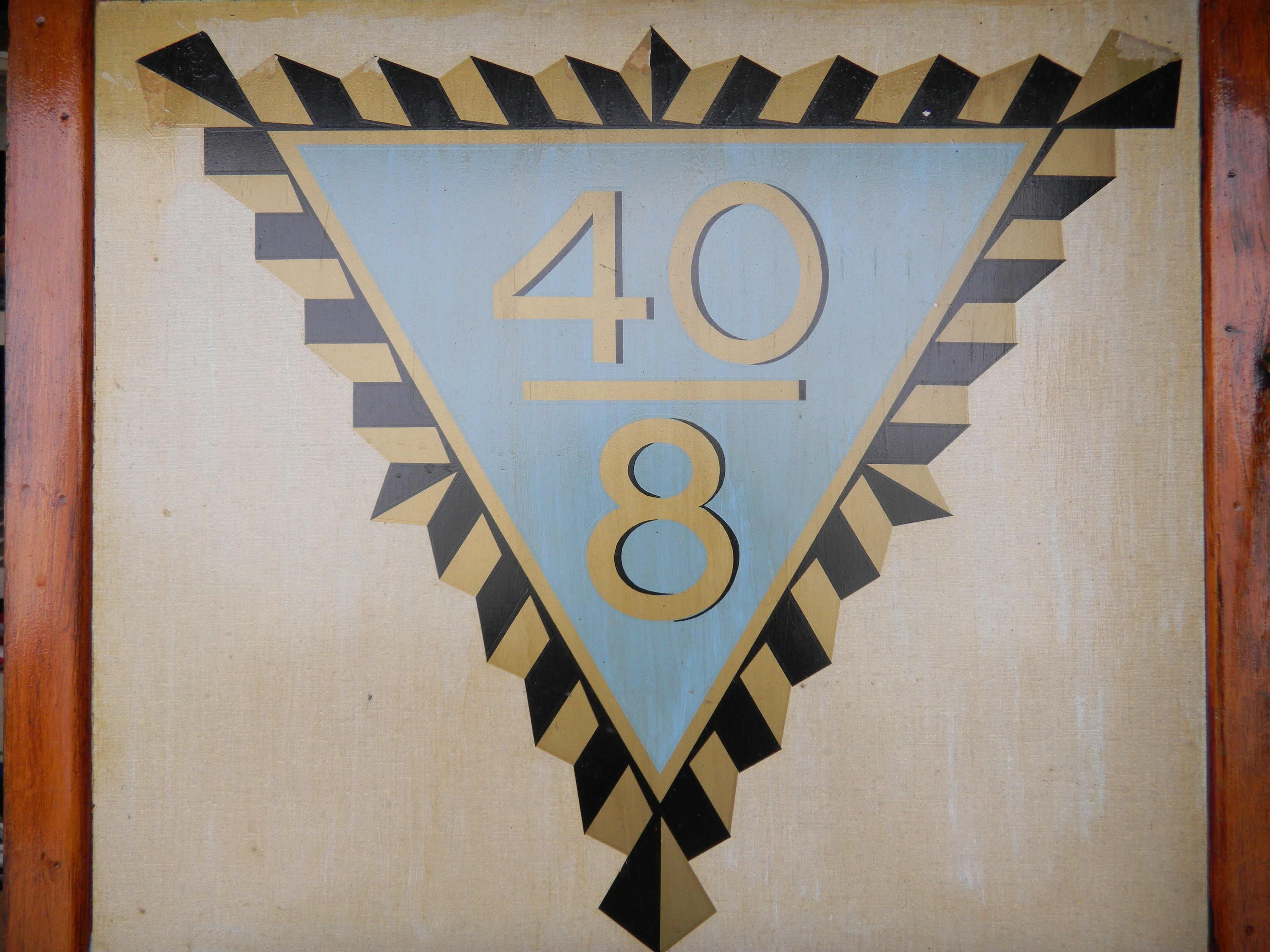 The official emblem of the 40 & 8. The triangular shape suggests veterans of the air, land and sea.